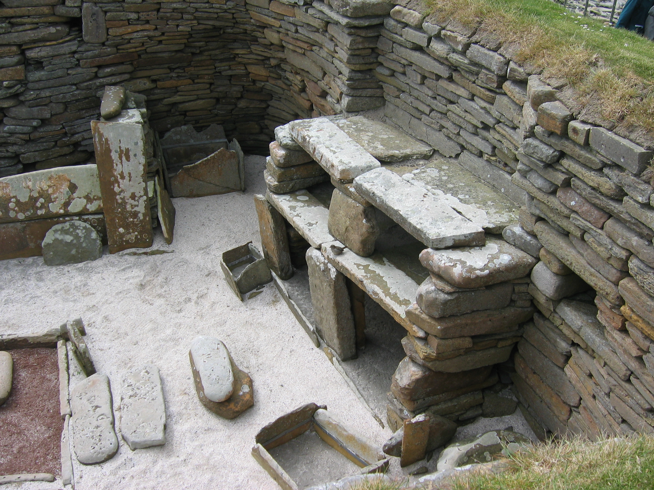 Skara Brae, Neolithic settlement, Orkney, Scotland